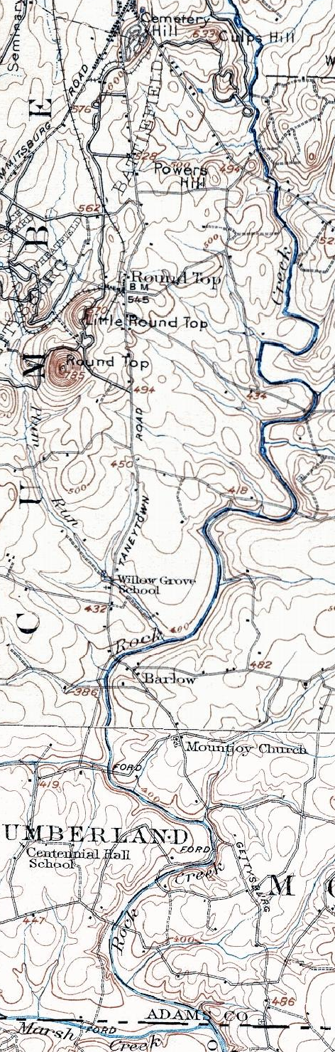 Taneytown Road in Adams County, Pennsylvania before 1920s rerouting